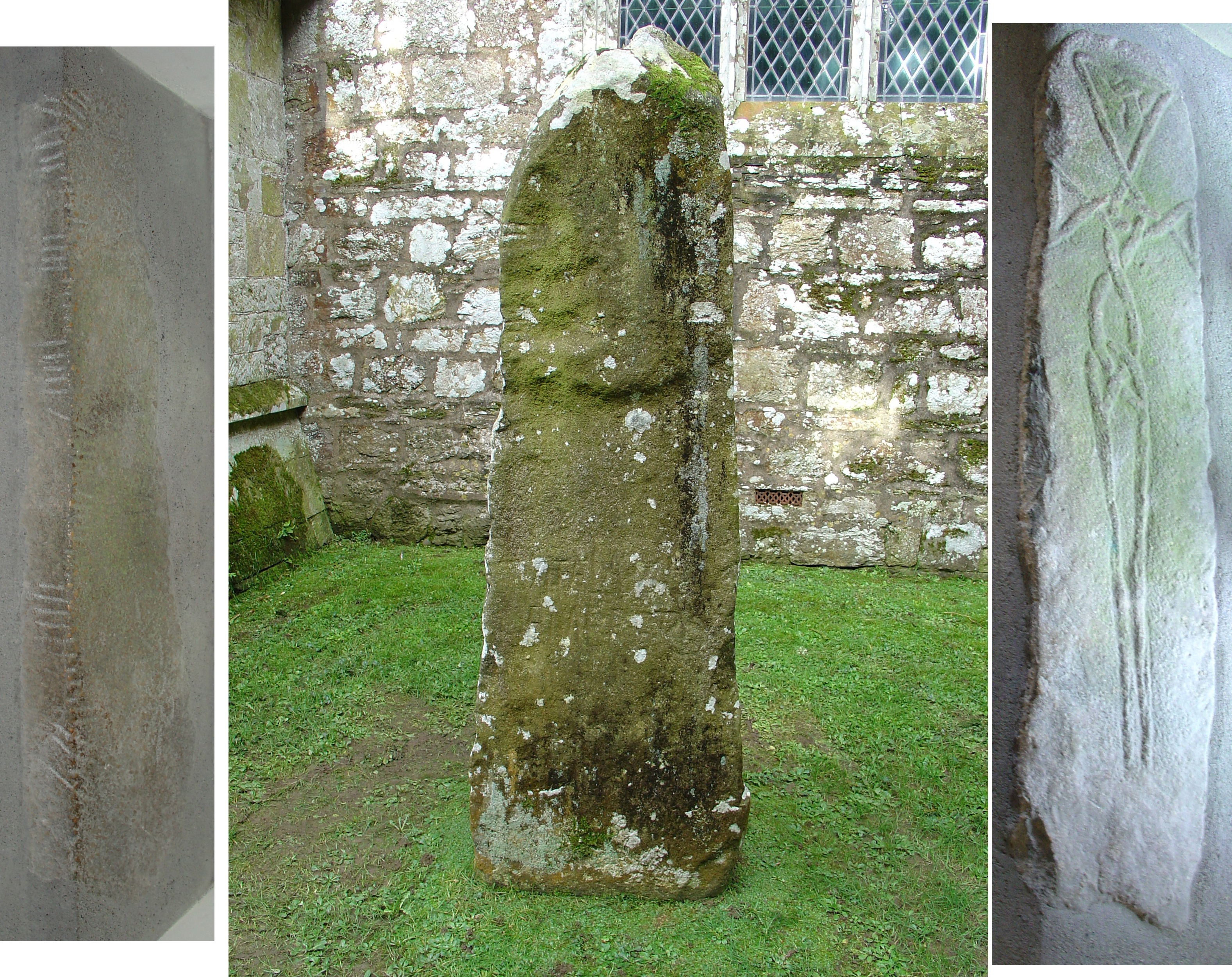 Three early inscribed stones at Nevern, Pembrokeshire